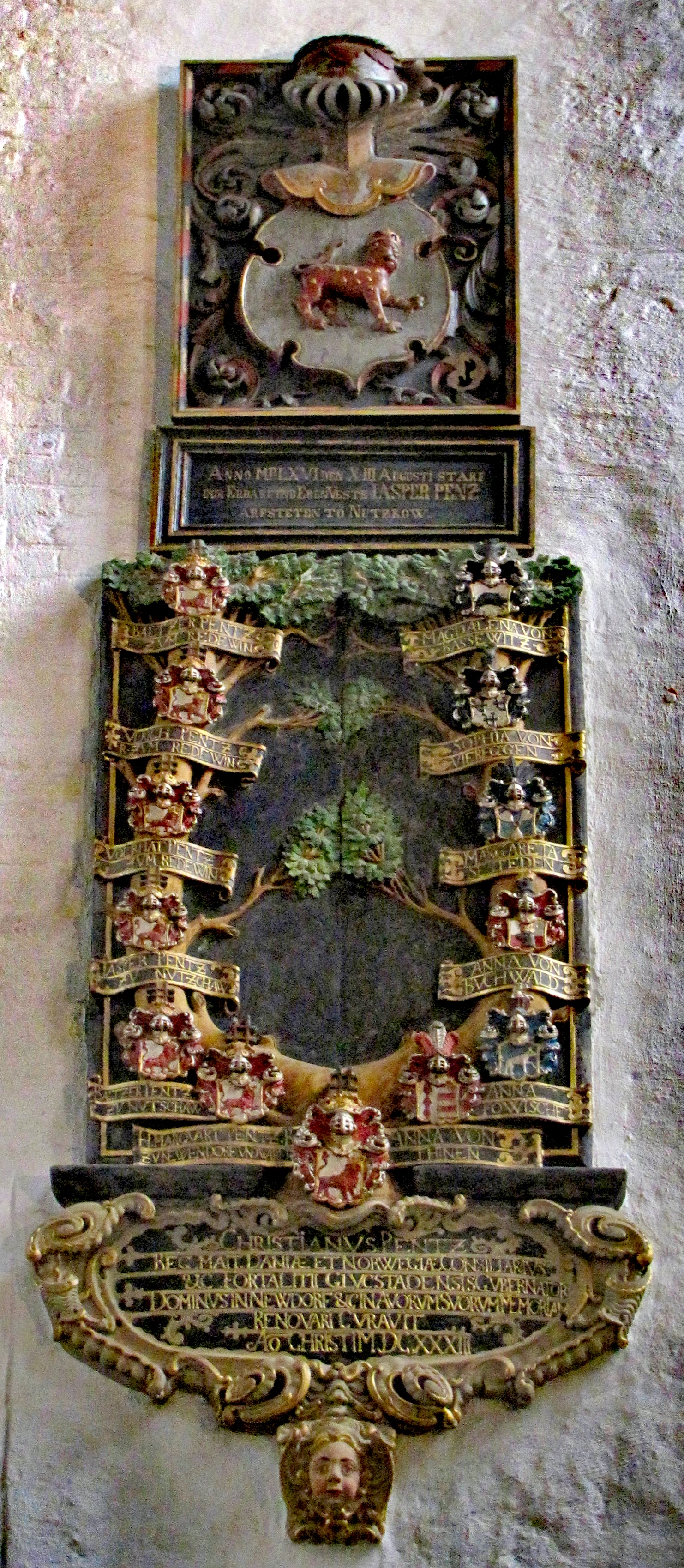 Epitaph for the Pentz family in Lübeck Cathedral